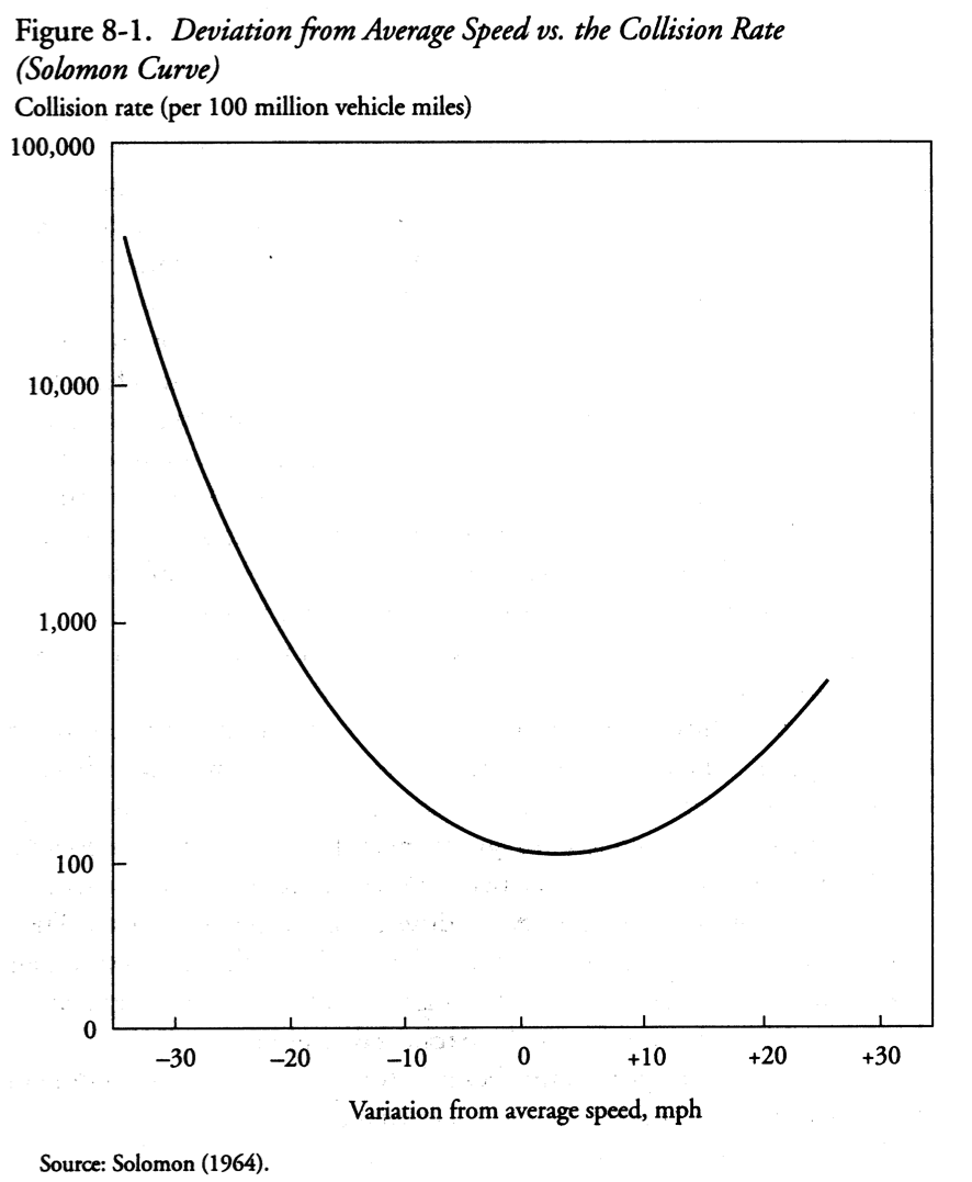 Graph plotting the deviation from average speed vs. the collision rate that shows the results of Solomon's research from 1964 which, after publication, has been called the "Solomon curve"